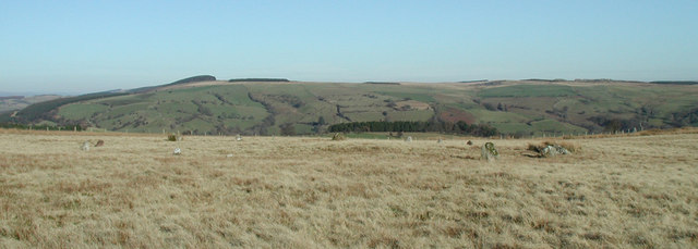 Trecastle Mountain Eastern Circle. Situated to the east of Y Pigwn Roman Marching camps, on the Roman road that took Gold from Dolaucothi gold mines to Deal in Kent. One of a pair of circles that pre-date the Roman occupation by thousands of years.